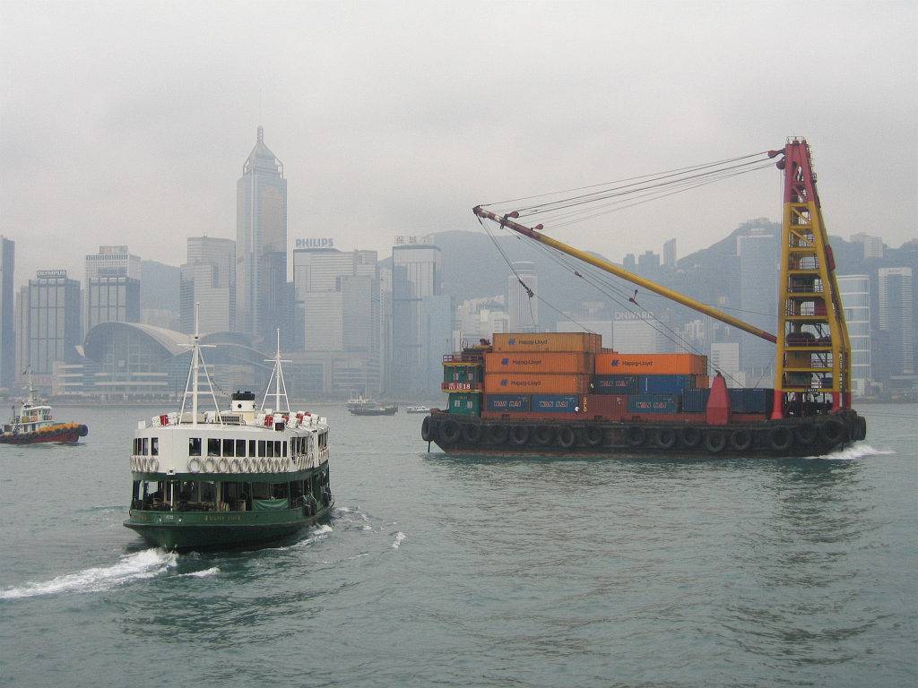 Cargo lighter with derrick crane on Victoria Harbour, Hong Kong. Viewed from the Kowloon Star Ferry pier, ferry 'Silver Star' approaching, Hong Kong island in the background